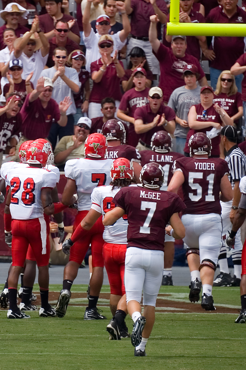 1st quarter Jorvorskie Lane touch down - his first of four. Texas A&M vs. Fresno State - September 8th, 2007.